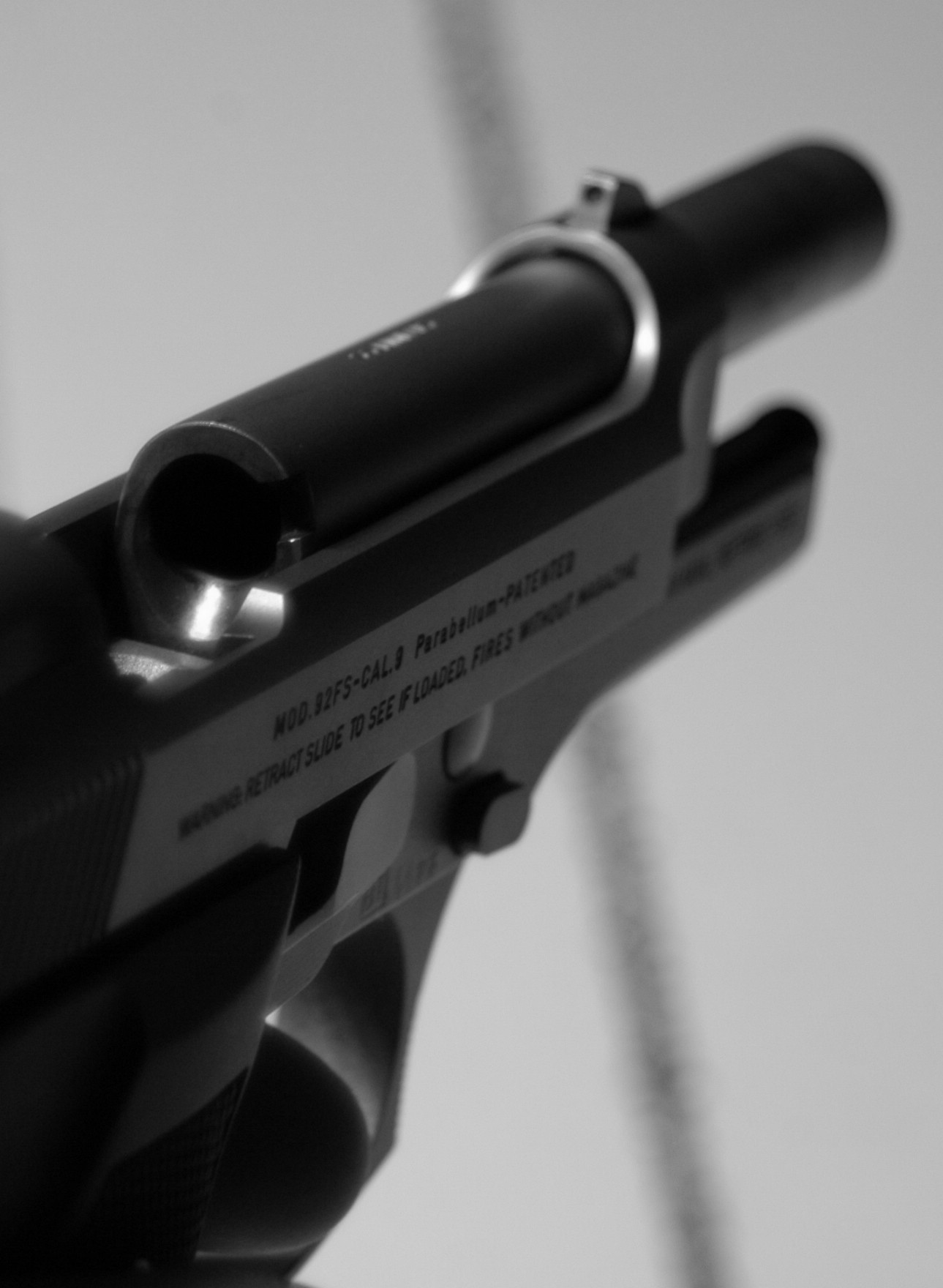 My Beretta 92FS 9mm up-close The weapon reads: MOD. 92FS-CAL9 Parabellum-PATENTED WARNING: RETRACT SLIDE TO SEE IF LOADED, FIRES WITHOUT MAGAZINE More information